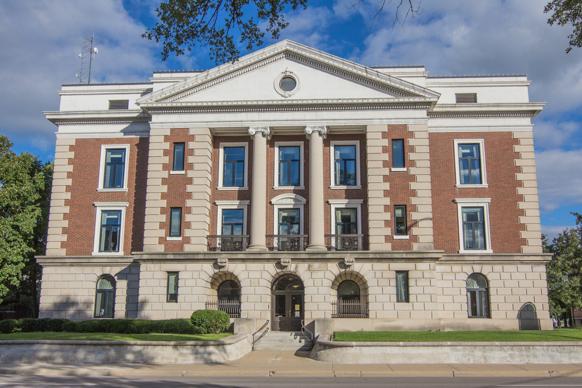 100px